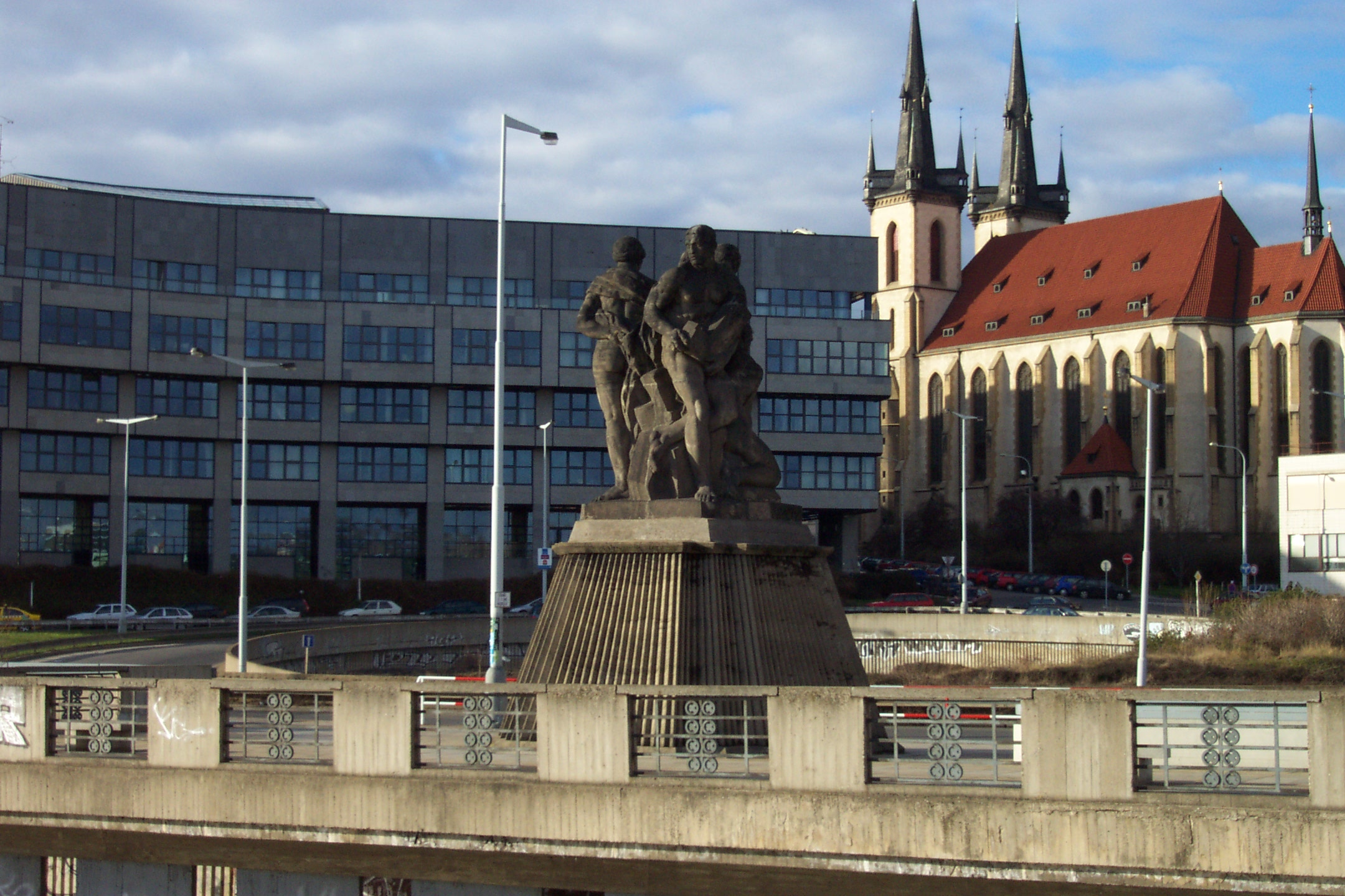 Statue near Hlávkův most